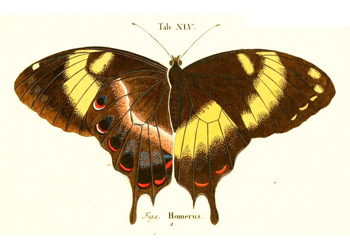 Papilio homerus ( = Pterourus homerus) from: Esper, Eugen Johann Christoph 1796. Die ausländische oder die ausserhalb Europa zur Zeit in den übrigen Welttheilen vorgefundene Schmetterlinge in Abbildungen nach der Natur mit Beschreibungen. Erlangen, Wolfgang Walther. (11/12): 161-192, pls. 41-46; p. 190, pl. 45 f. 1